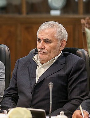 The government's economic team meeting with economists. Safdar Hosseini[Right] (chairman of National Development Fund of Iran) sitting near Valiyollah Seif[left](Governor of Central Bank of Iran).